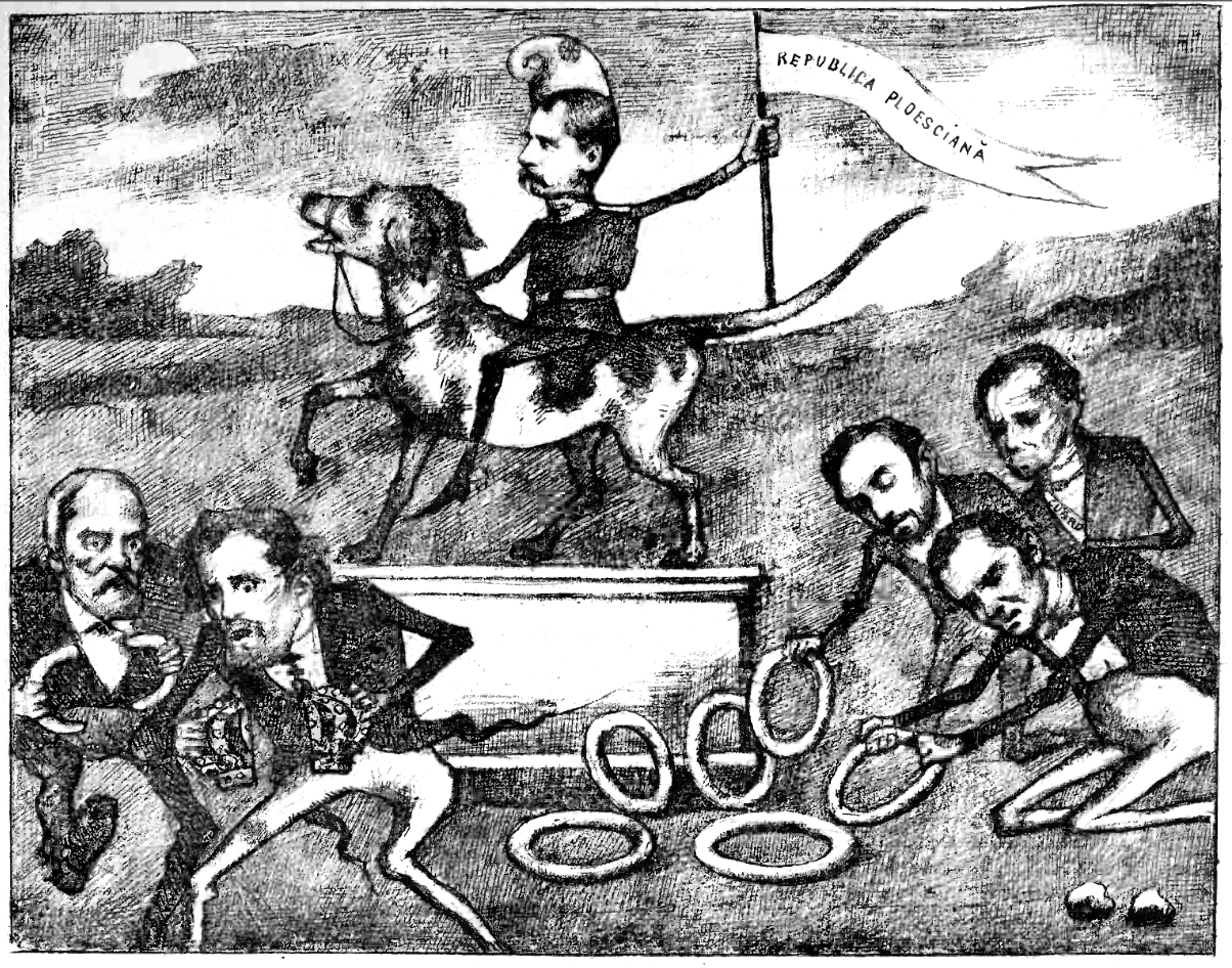 Part 1 of a two-part panel in Ciulinul, the conservative Romanian magazine. Satirical depiction of the August 1870 liberal conspiracy known as "Republic of Ploiești" (or Republica ploesciană, as spelled on the flag depicted). Alexandru Candiano-Popescu, the chief conspirator, is shown mounted on the pedestal, riding a dog and wearing the phrygian cap. Members of the liberal movement, including C. A. Rosetti and Gheorghe Chițu, present him with tributes of bagels and apples; Ion Brătianu is shown to be breaking apart the Crown of Romania. See also Part 2